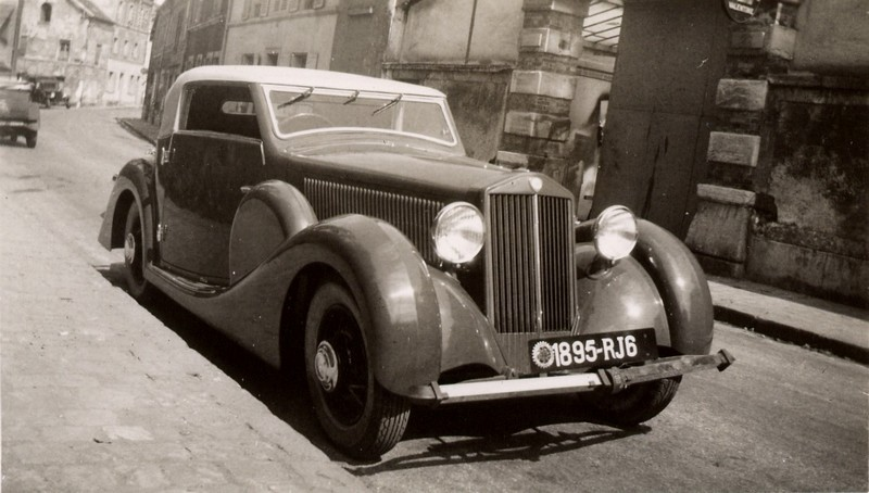 1935 Lancia Dilambda with Pourtout coachwork